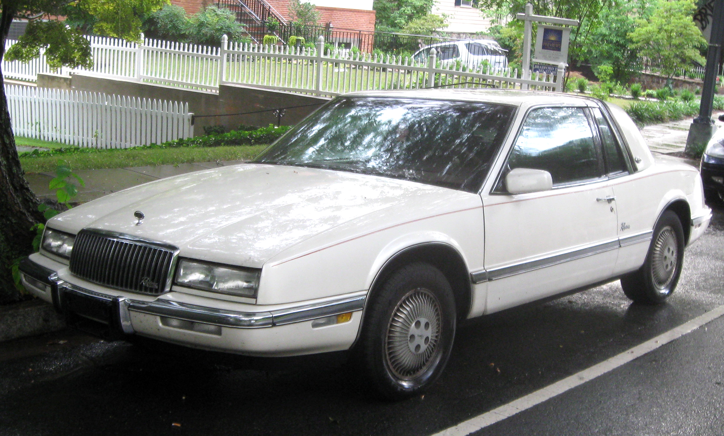 1986-1994 Buick Riviera photographed in Washington, D.C., USA.